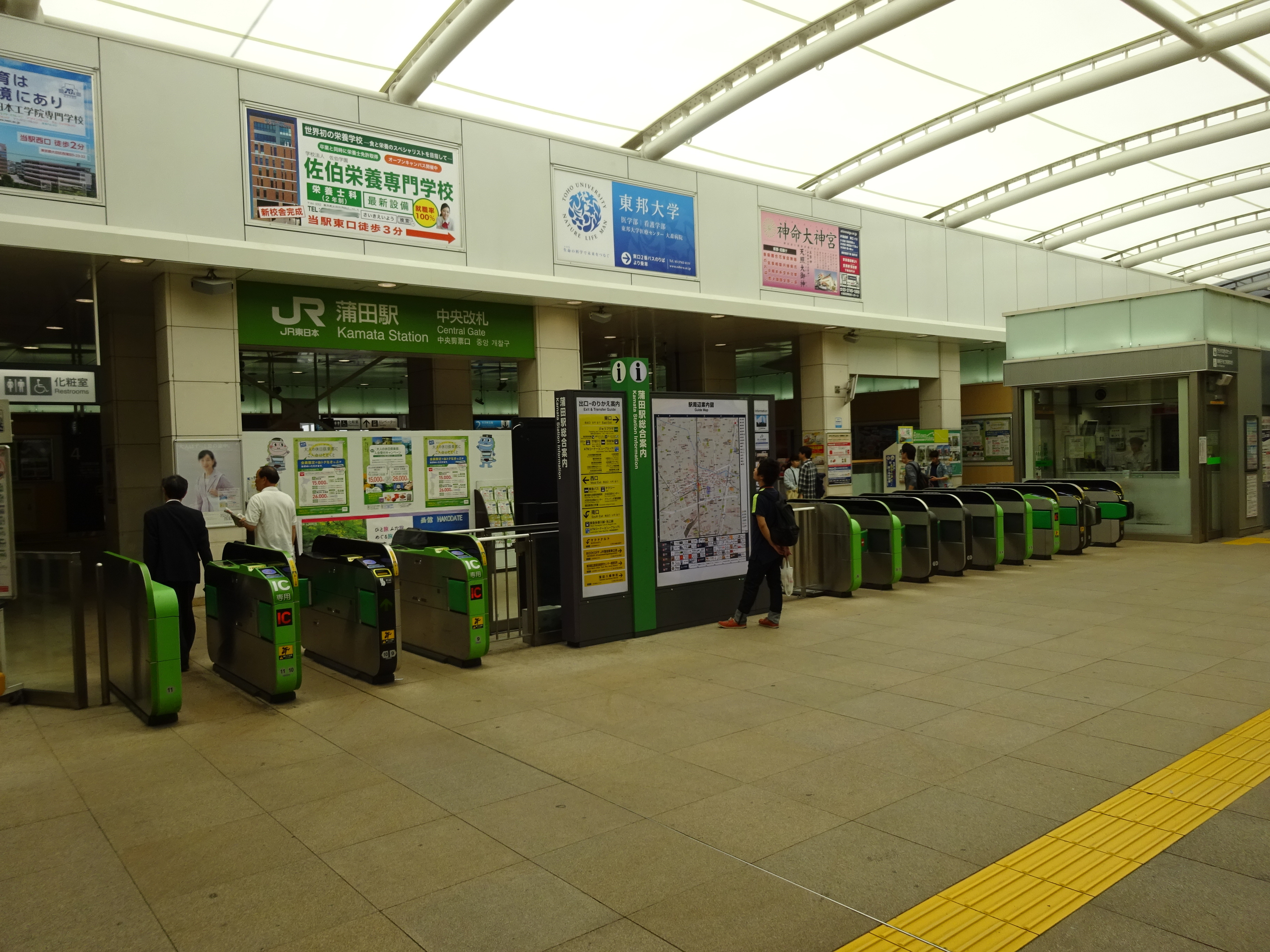 Ticket gate of Kamata Station(Central Gate)